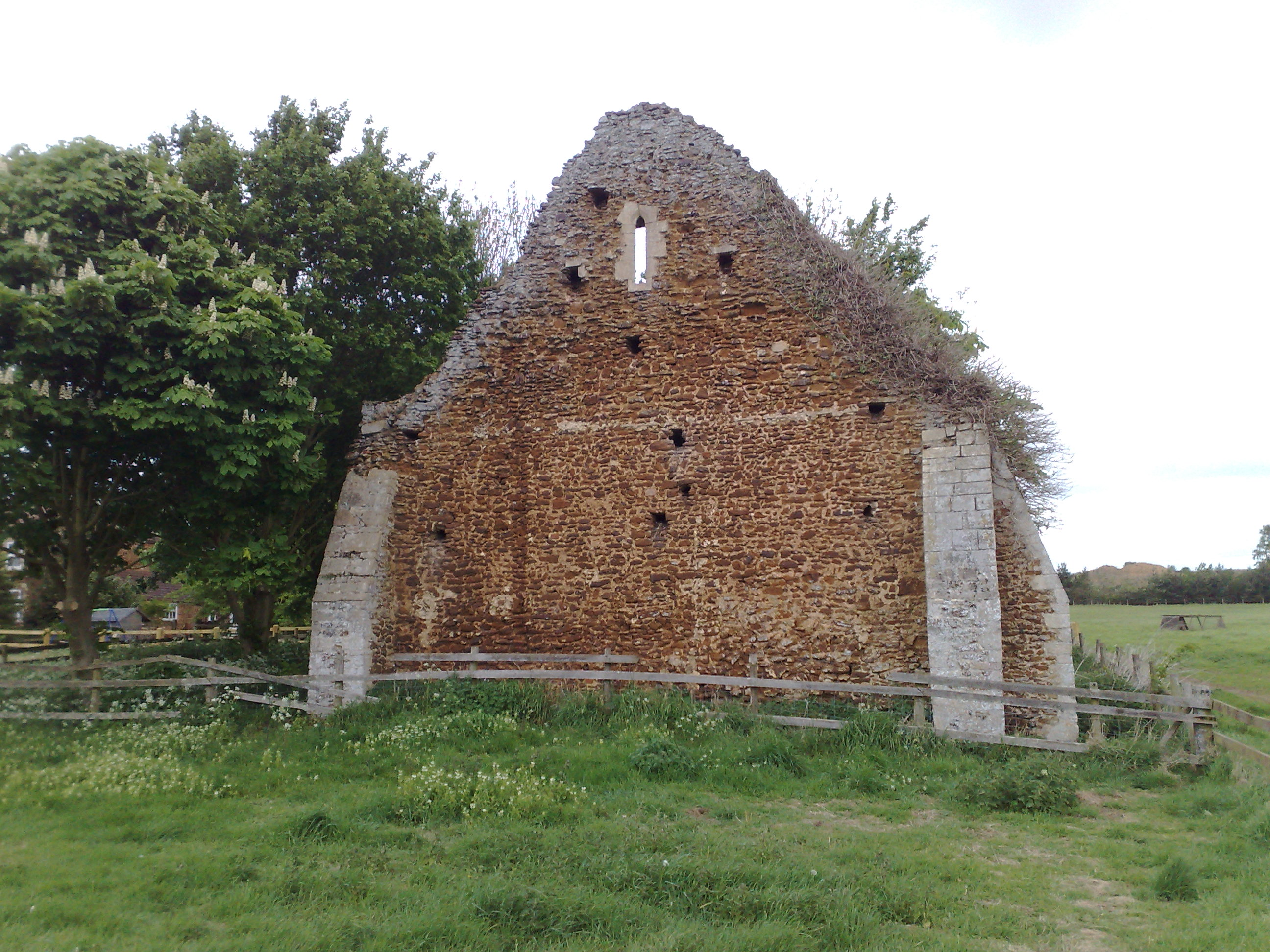 The priory of Blackborough This is the ruins of a Benedictine priory which dates back to the year 1150. More info can be found